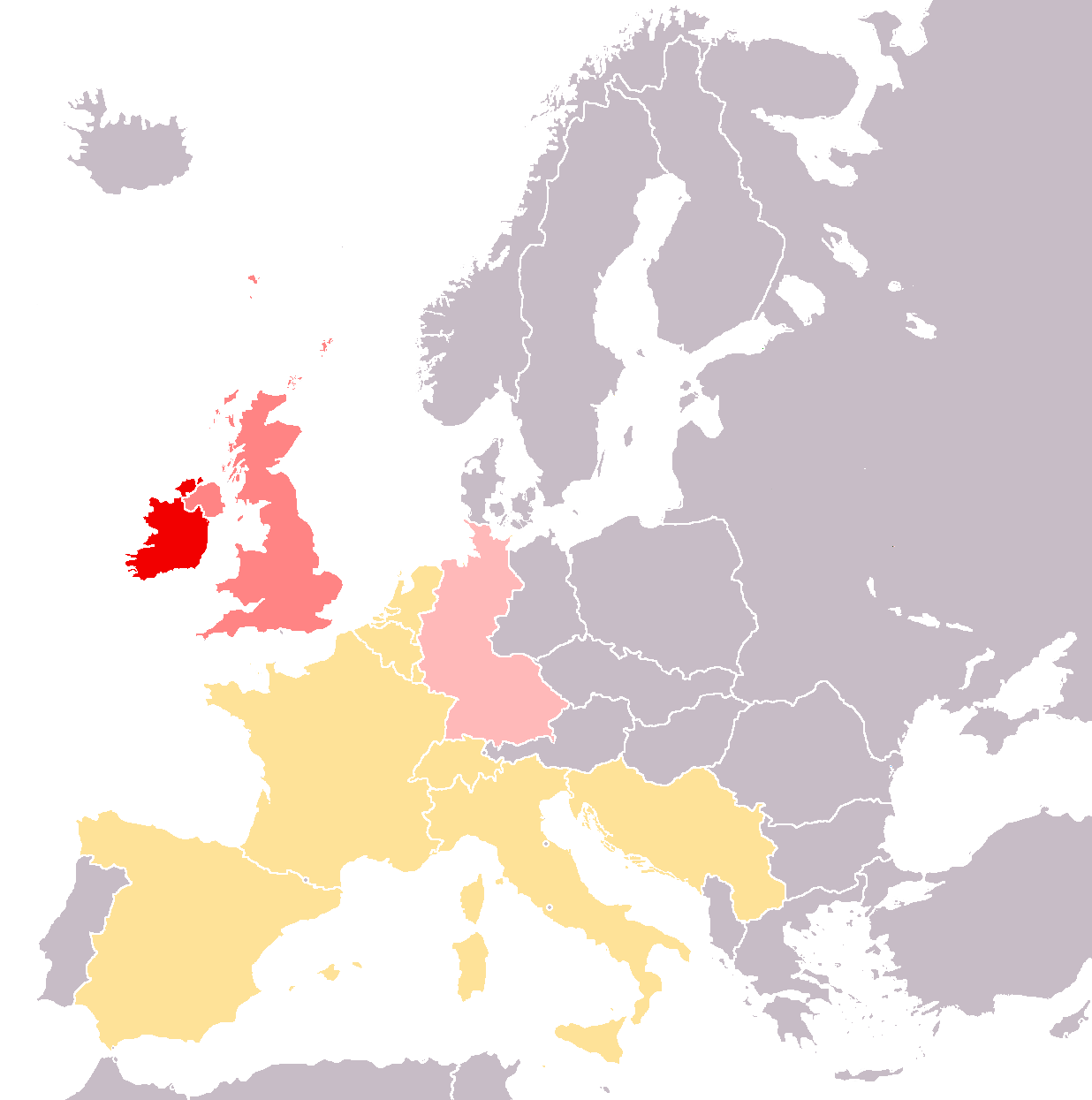 Map of Eurovision 1970